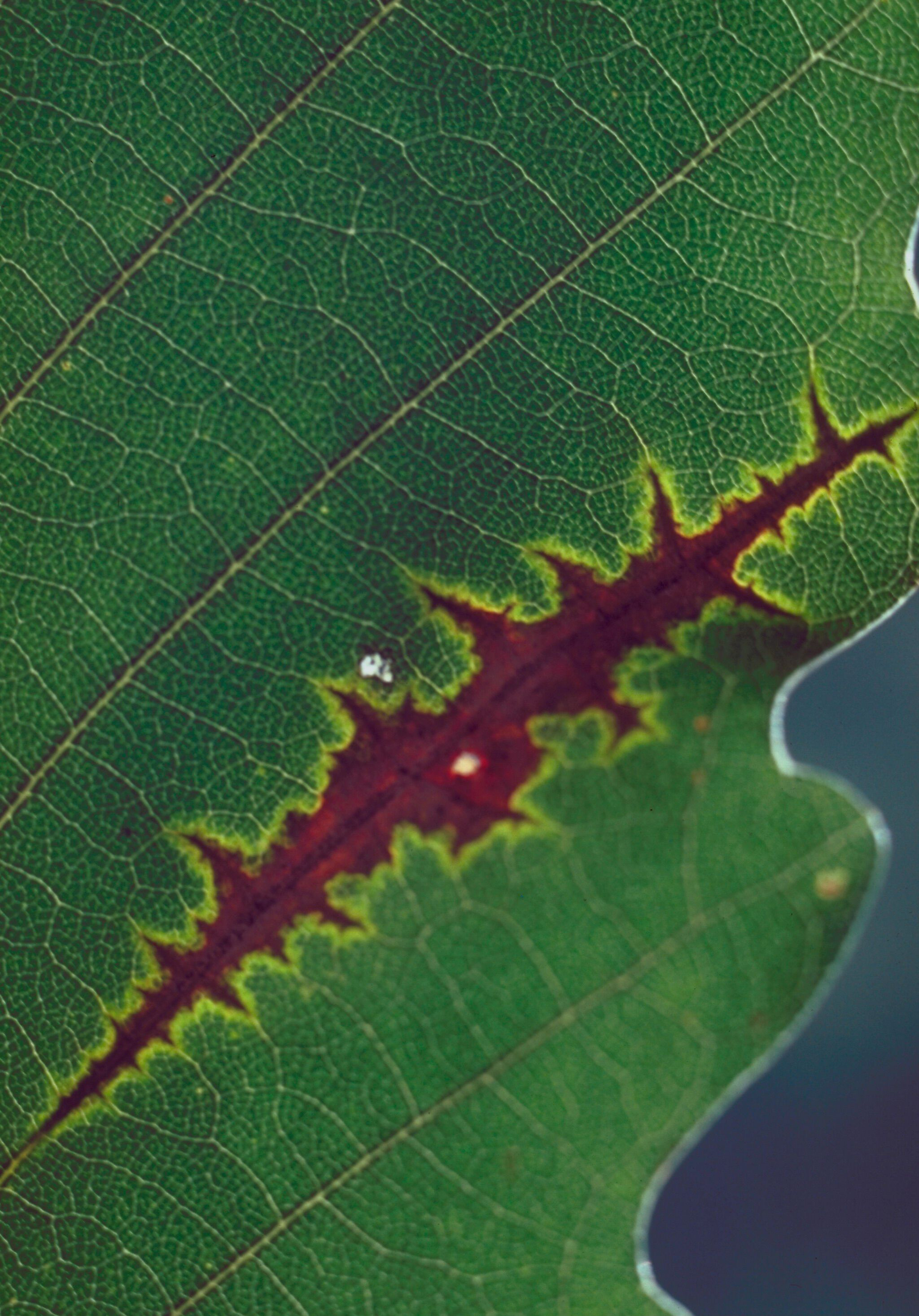 Oak Anthracnose caused by Apiognomonia veneta